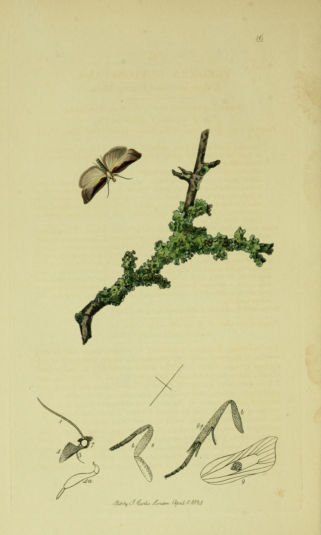 An illustration from British Entomology by John Curtis. Lepidoptera: Peronea ruficostana or Acleris (Peronea) cristana (Rufous-margined Button Moth).